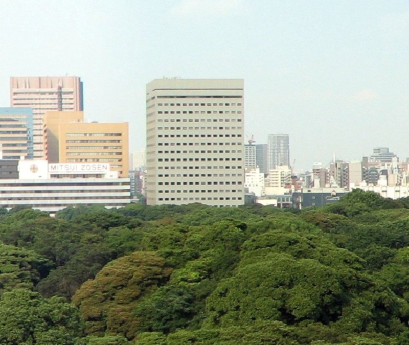 Hama Rikyu Parkside Place building (center top) as seen from the top of a parking garage south of the garden.